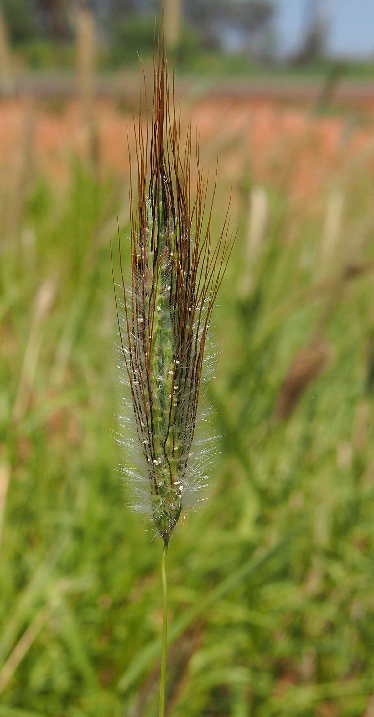 Dicantium sericeum flowers